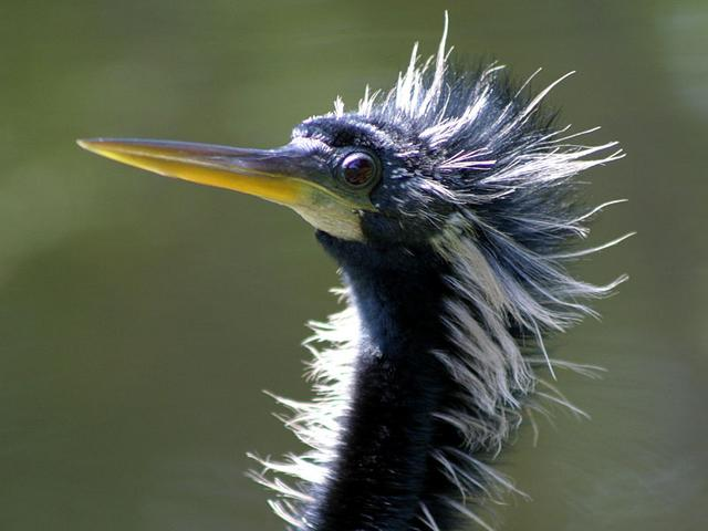 Juvenile adult male Anhinga in breeding plumage - photo taken at Sawgrass Lake Park, St. Petersburg, FL